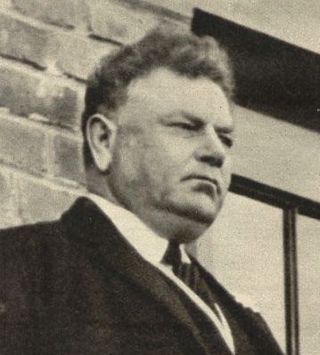 Ludwik Hammerling (1870-1935) - Polish entrepreneur and senator.